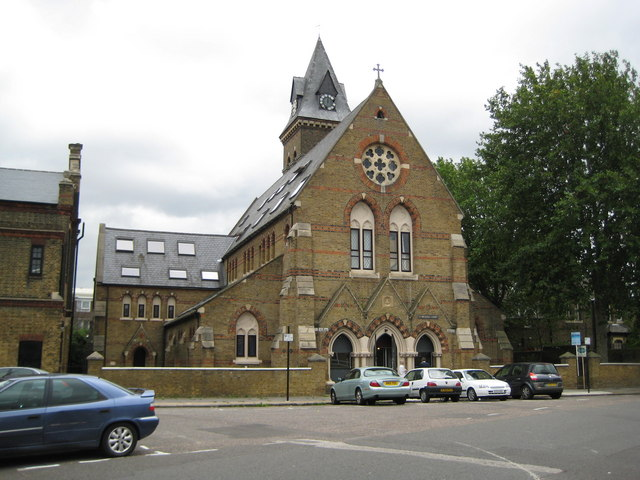 Bromley: The former church of St Michael and All Angels The building dates from 1867 and was a church within the parish of St Leonard Bromley, being built on the east side of St Leonard's Road. It survived the Blitz but was closed in 1975, and has since been converted into residential use. It is now known as St Michael Court.